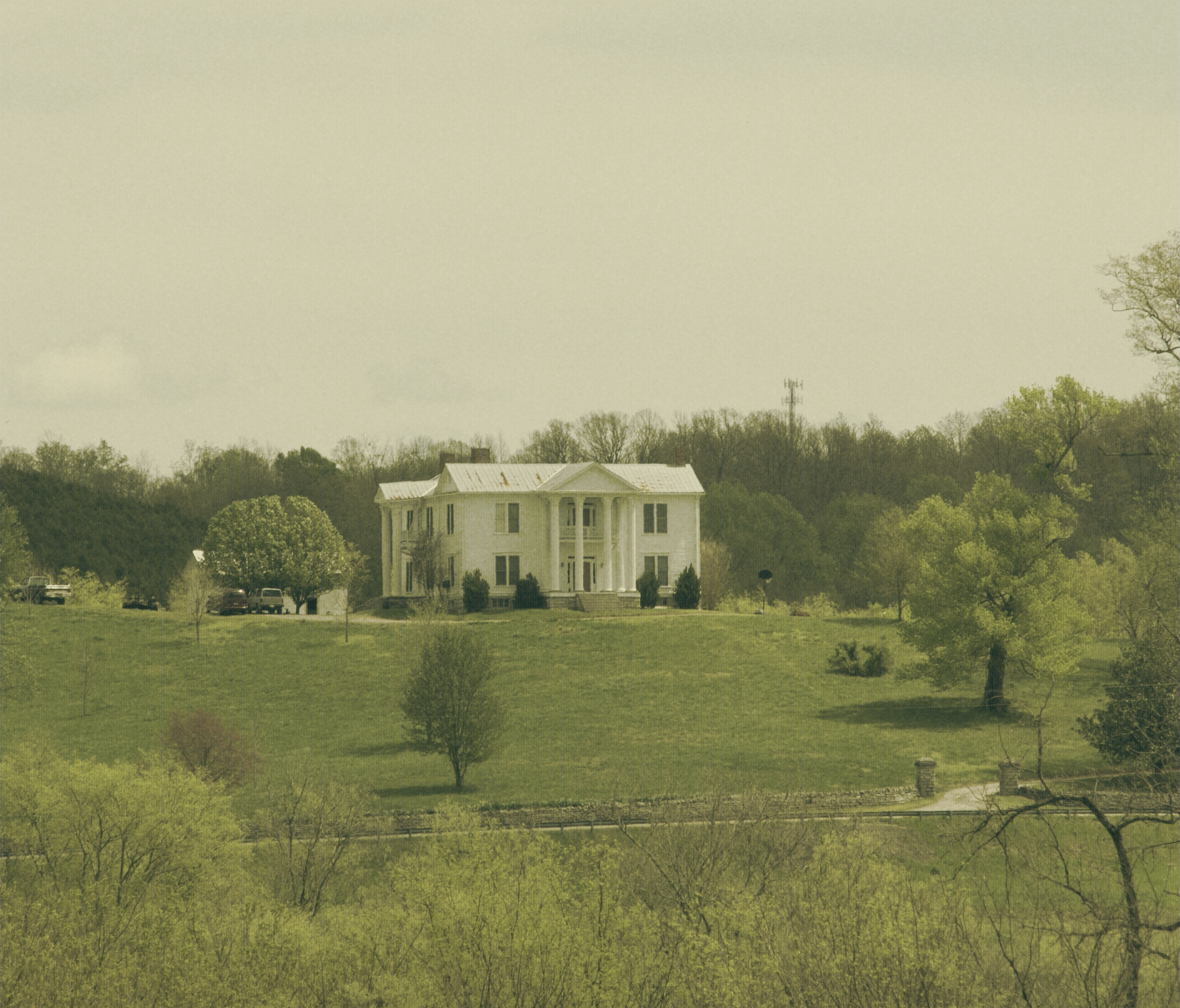 Built by Absalom Lowe Landis approx. 1869, maternal great-grandfather of Prentice Cooper, three-term Governor Of Tennessee (1939-1945)